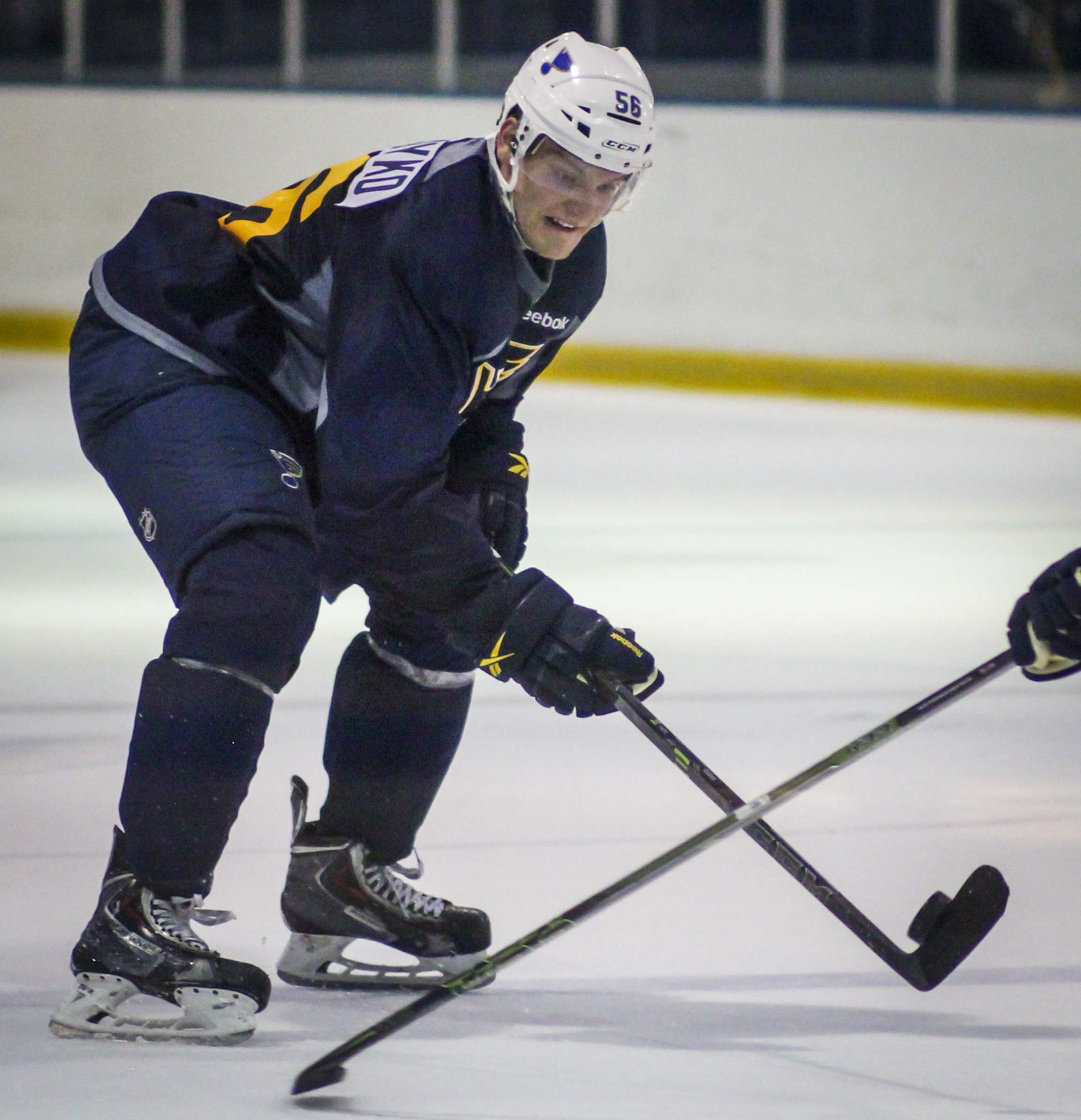 COLTON PARAYKO of the Blues